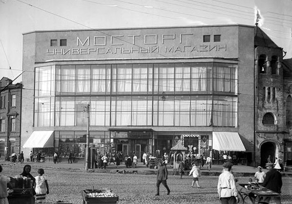 Photo taken 1920s Contents 1 Licensing 2 Source 3 Licensing 4 Original upload log Licensing